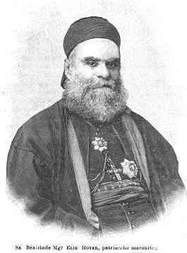 Maronite Patriarch Elias Peter Hoayek in (or before) 1899